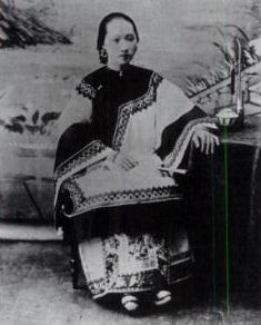 Picture of a women around 1890